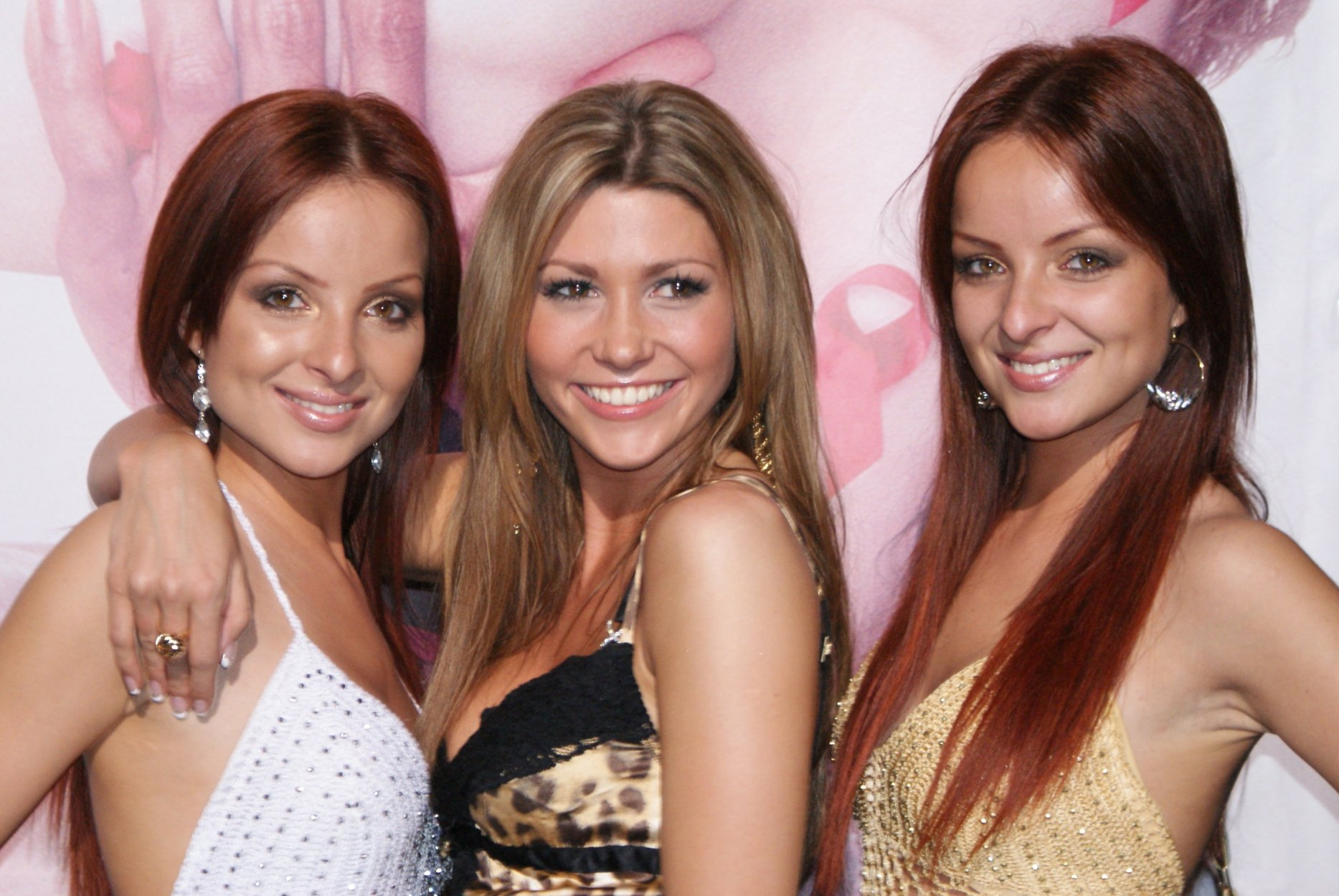 Czech entry in the Eurovision Song Contest - Belgrade 2008